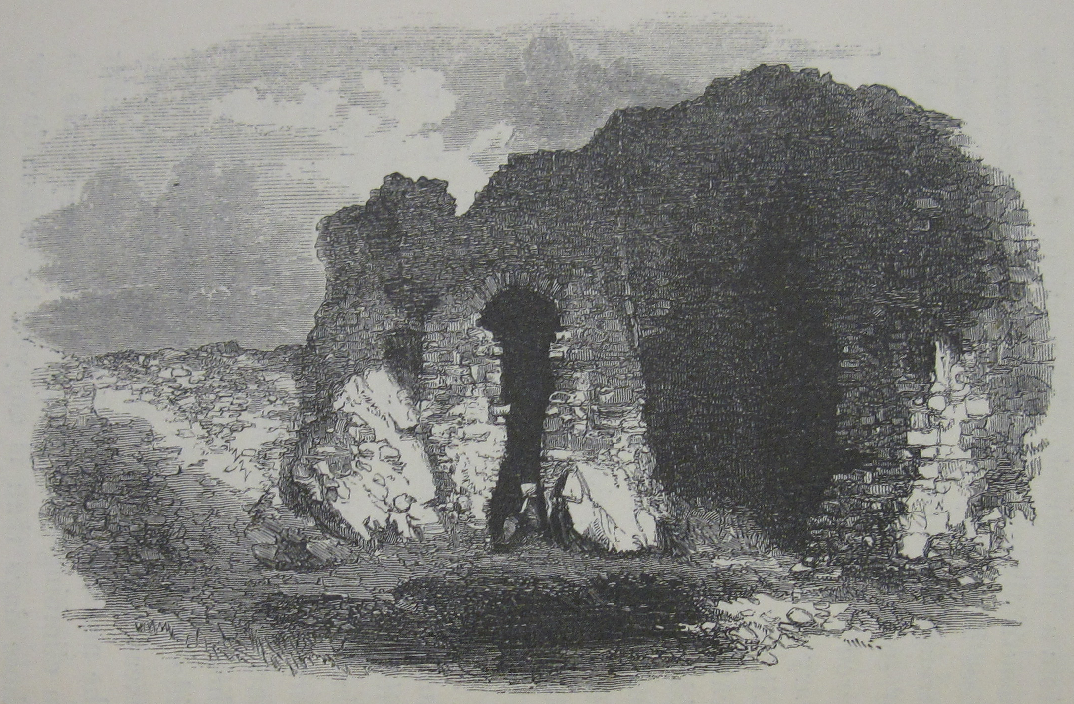 Rambles Among the Channel Islands, by a Naturalist, c.1860, Jean Louis Armand de Quatrefages de Bréau - "Ancient priory of Lihou"